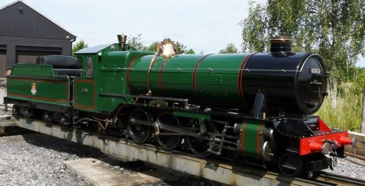 Number 1002 "The Empress" In the Yard